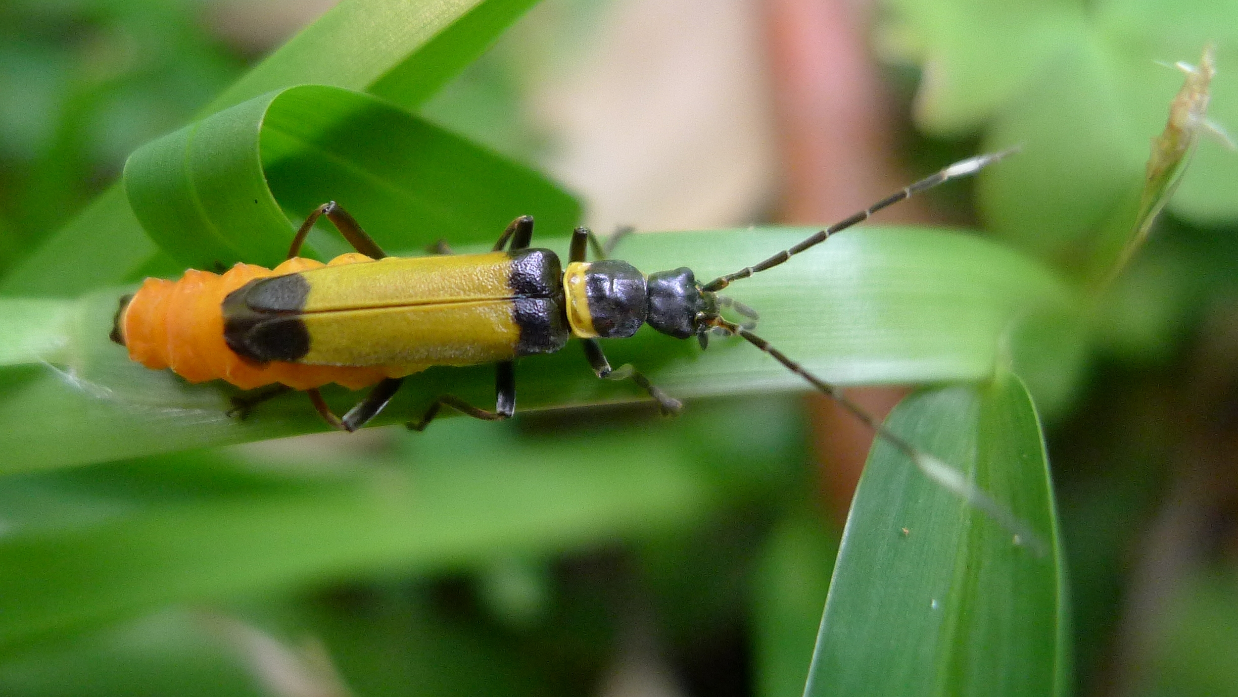 Yellow and black soldier beetle, Chauliognathus imperialis (Cantharidae). Como NSW Australia, January 2012.